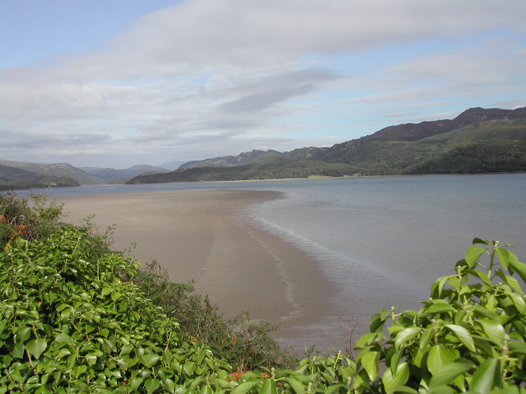 from Hasso Weber - Scotland motorcycle-tour in 2005 (date: 17.08.2005)